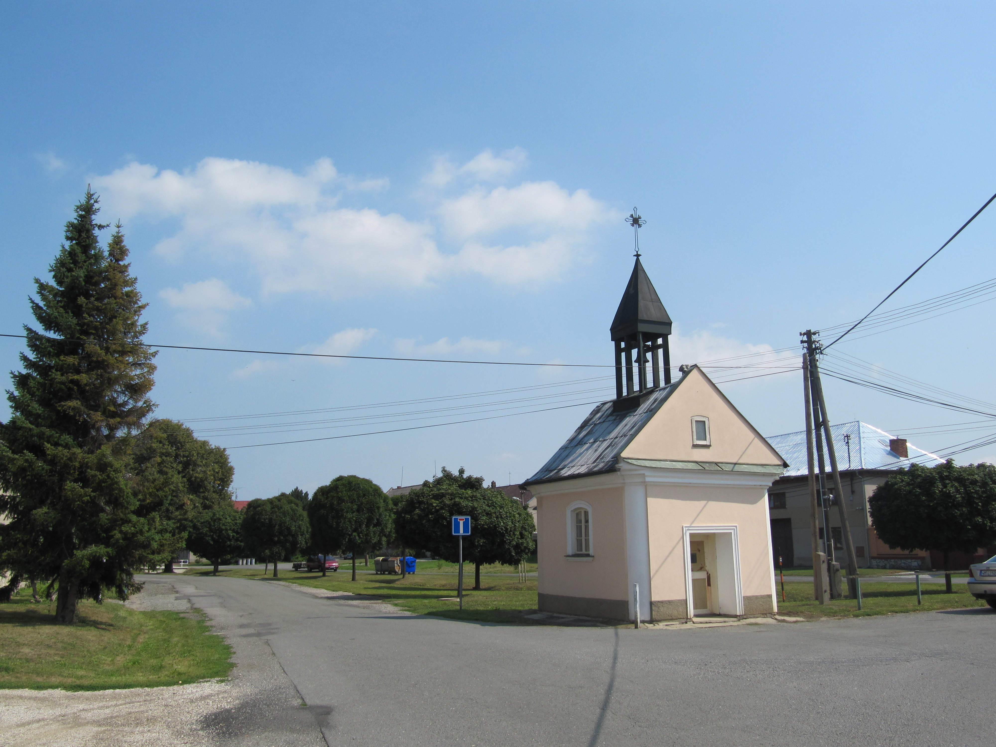 Náklo in Olomouc District, Czech Republic, part Mezice. Village green with the chapel.